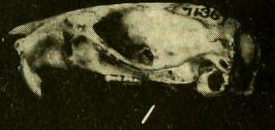 Skull of Oryzomys palustris, seen from the side. USNM 71367, adult male from Georgetown, South Carolina.